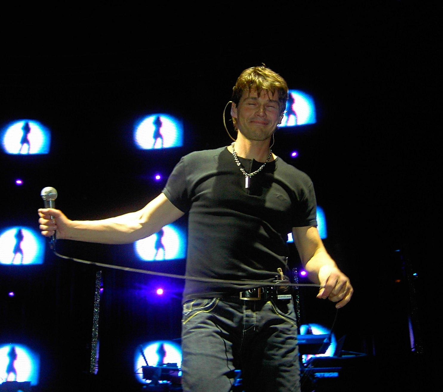 Morten Harket (a-ha) live at Cologne, 29th Oct. 2005